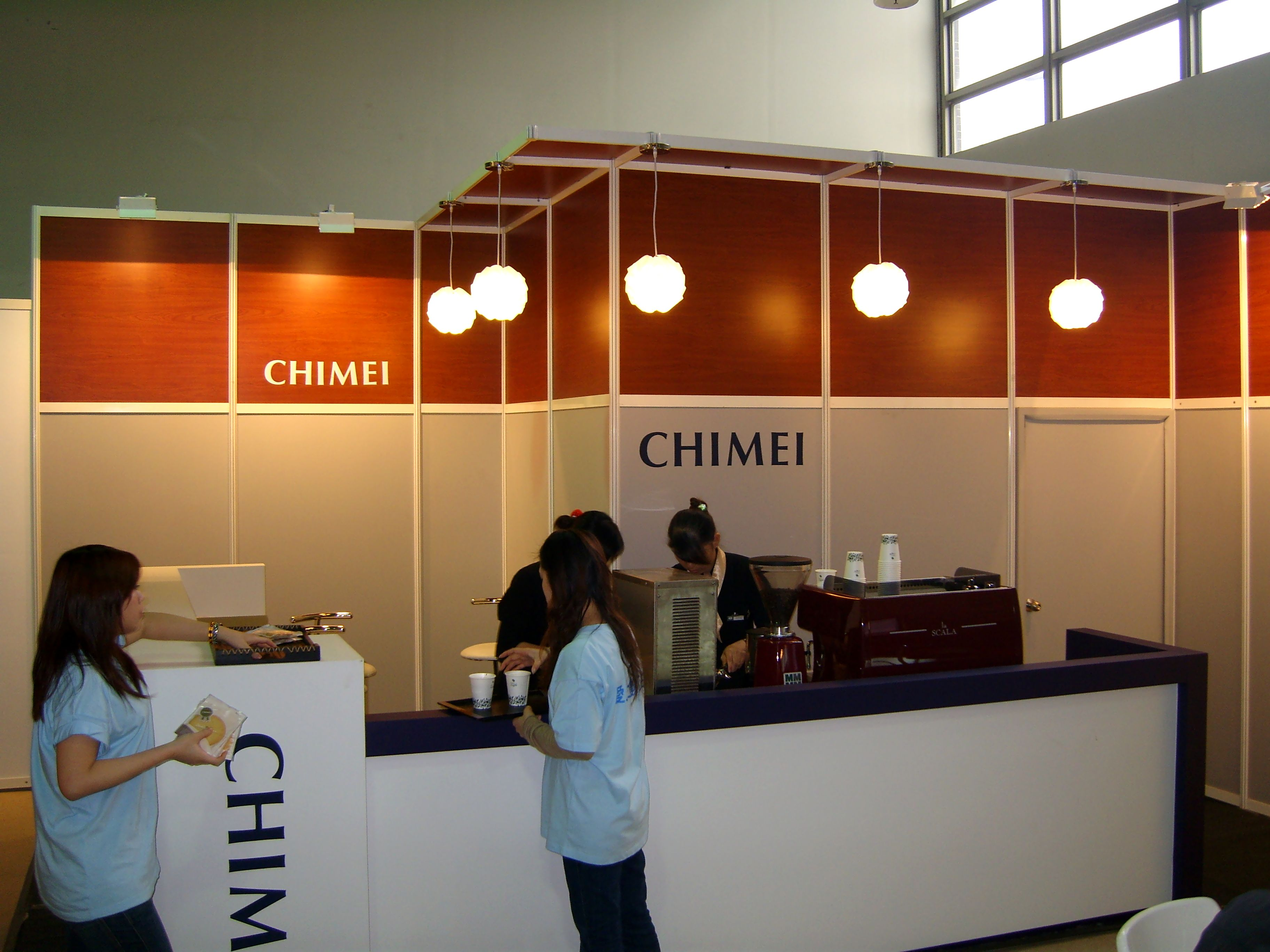 2007 Taipei IT Month - VIP Room: Coffee Break Area by CHIMEI.